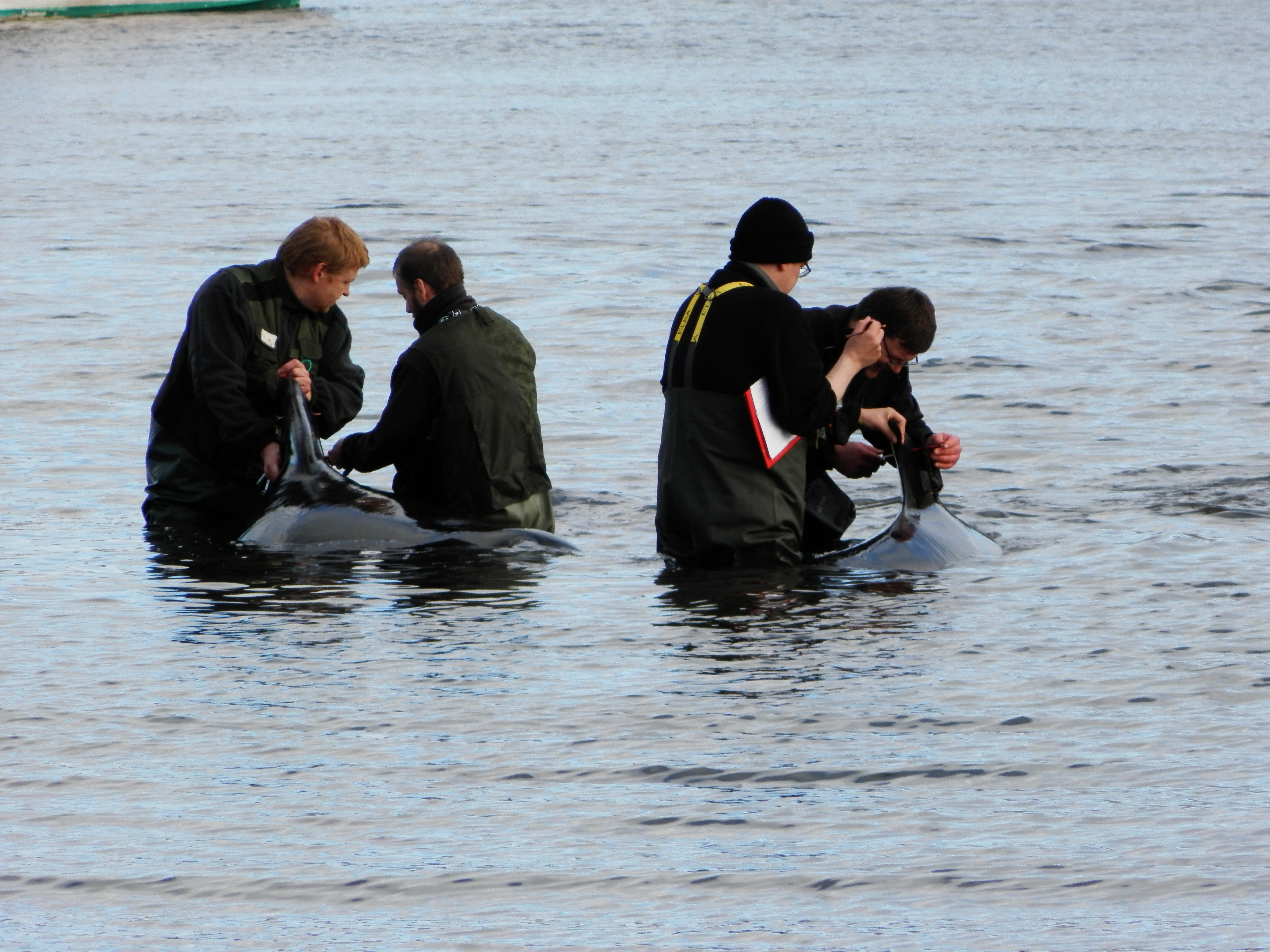 Satellite tagging of pilot whales in the bay of Vágur in the island Suðuroy in the Faroe Islands. The men who tag the whales came from the Faroese National Heritage, the Náttúrugripasavnið, Søvn Landsins. The purpose is for scientists to be able to follow the migration of the whales in order to get a better picture of where they travel, how far they travel and so on. The whales were driven out on open sea after the tagging. Pilot whales which have been tagged must not be killed.